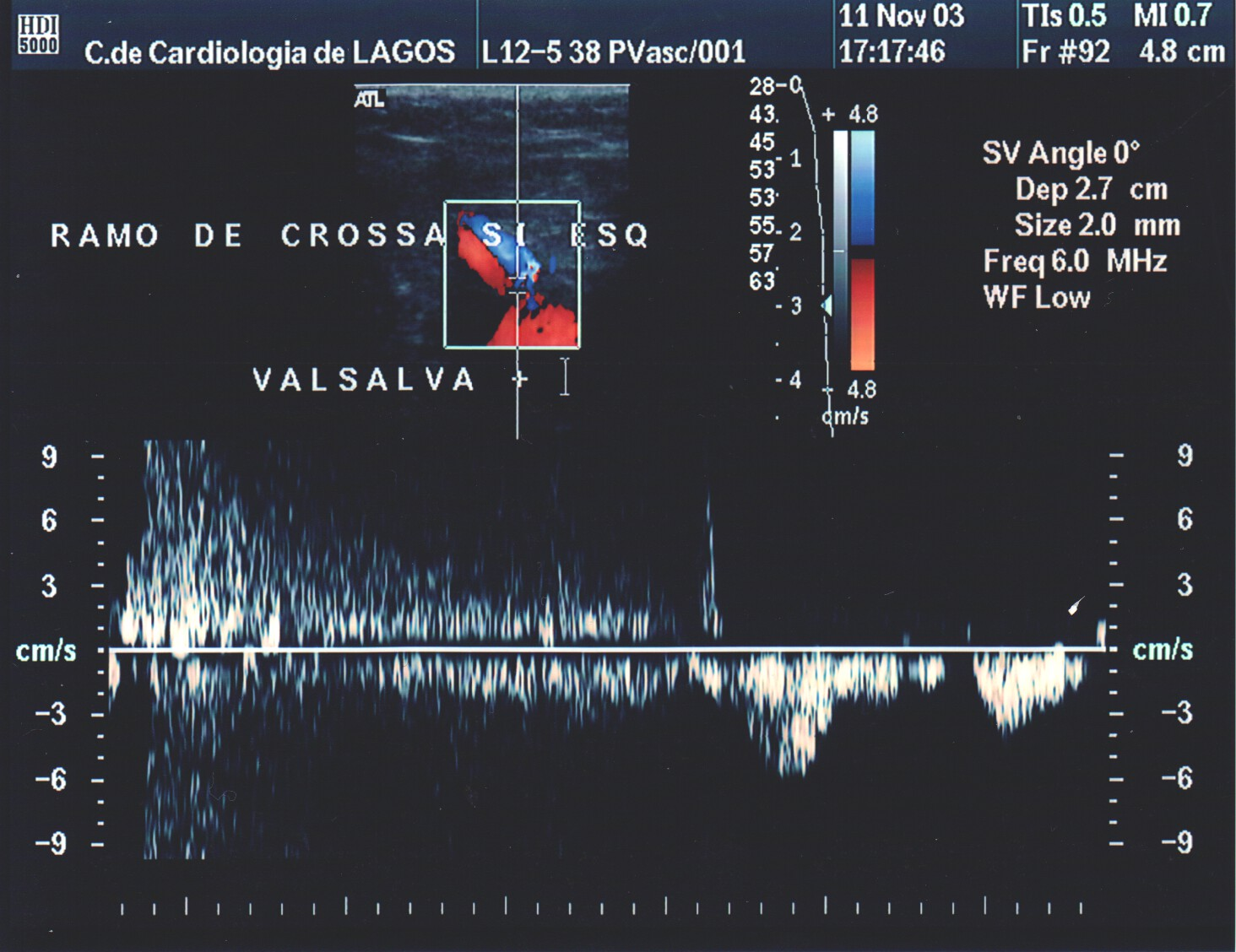 Great saphenous vein - False positif at Valsalva test